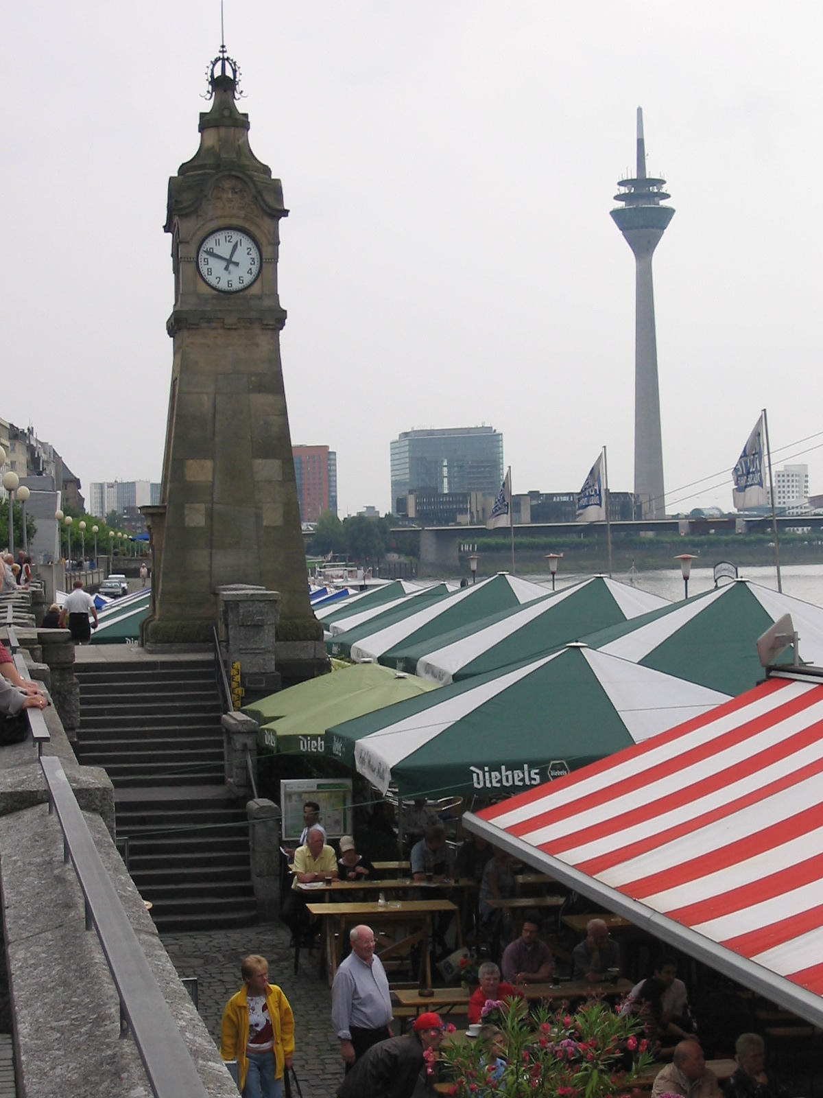 Rhine border. Rheinturm in the distance.Düsseldorf (Germany)